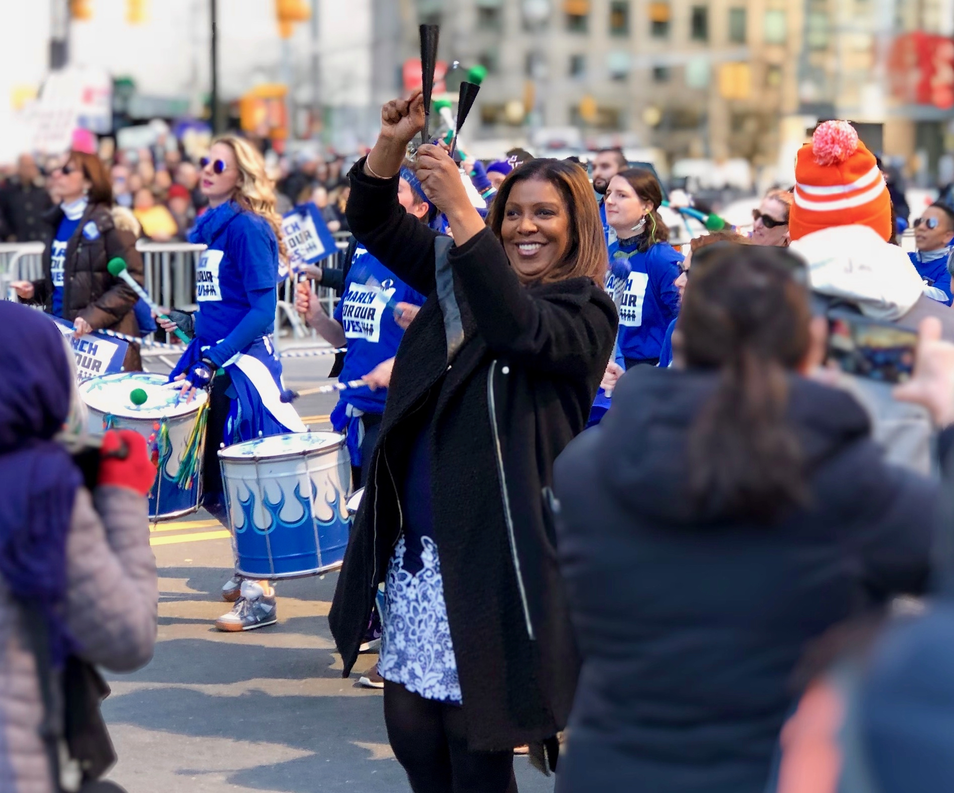 Letitia James at the NYC "March for our Lives" rally. Central Park South at Columbus Circle. Letitia at the head of the All Woman Identified Drumline FogoAzul NYC